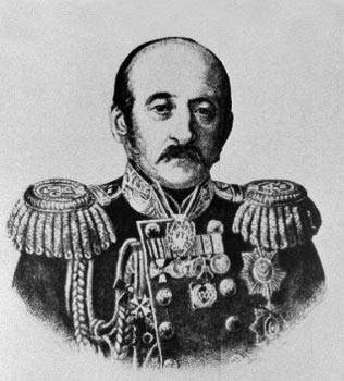 Chevkin, Konstantin Vladimirovich (1803—1875) — general of the infantry of the Russian Imperial Army, and adjutant general.